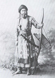 Photo of russian opera singer Mikhail Koryakin (1850-1897) as Khan Konchak in opera "Prince Igor" by A.P.Borodin